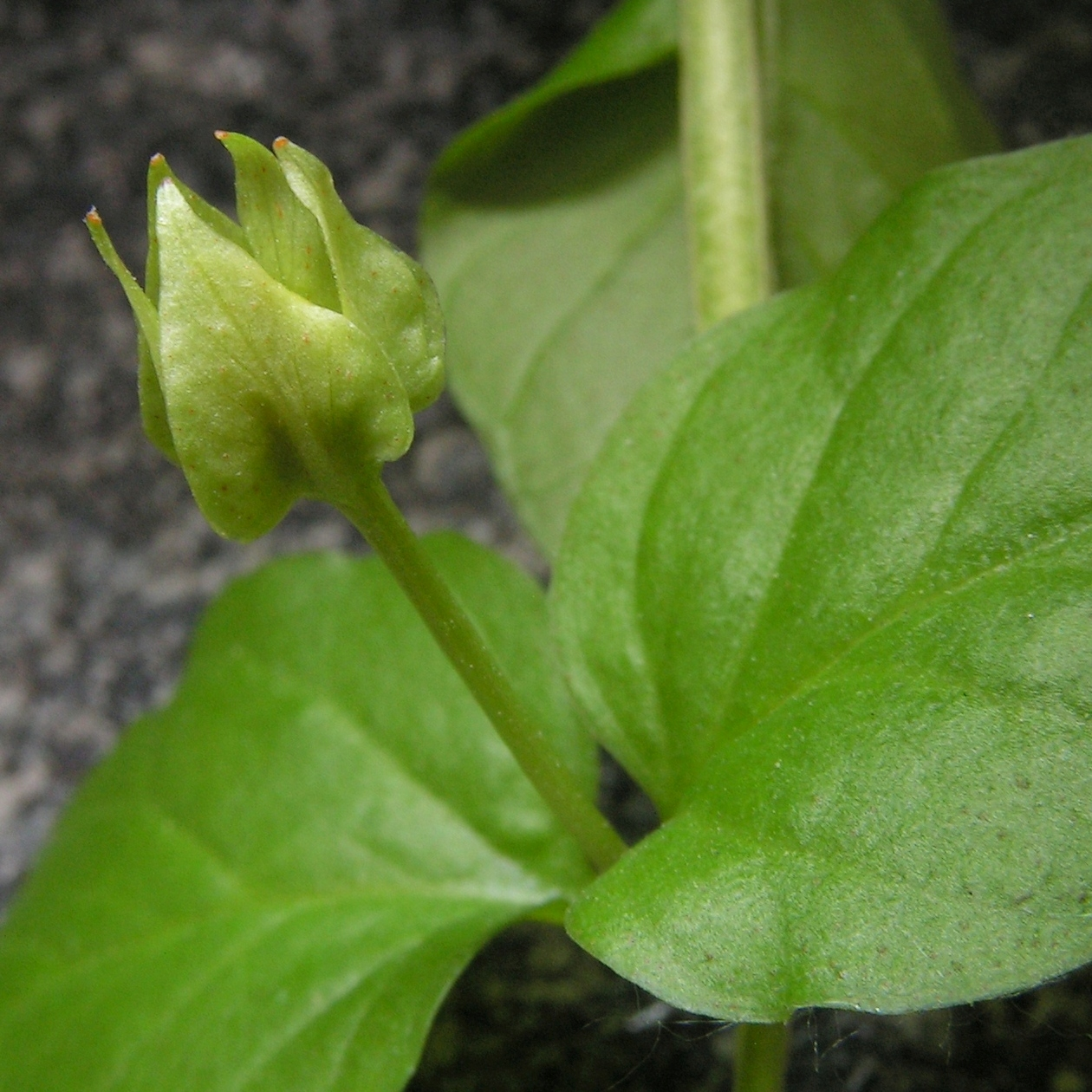 Close-up of the unopened flower of Creeping jenny. The length of the unopened flower (without peduncle) is 7 mm.